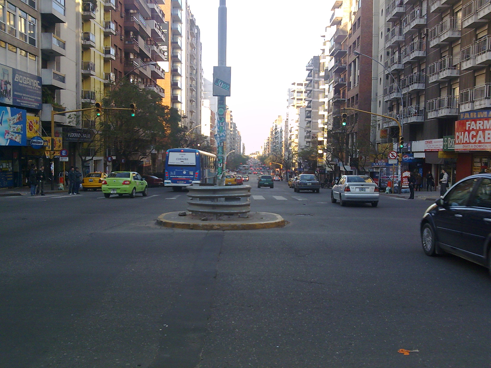 Intersection of Chacabuco Boulevard and Illia Boulevard. Near downtown of Cordoba, Argentina.